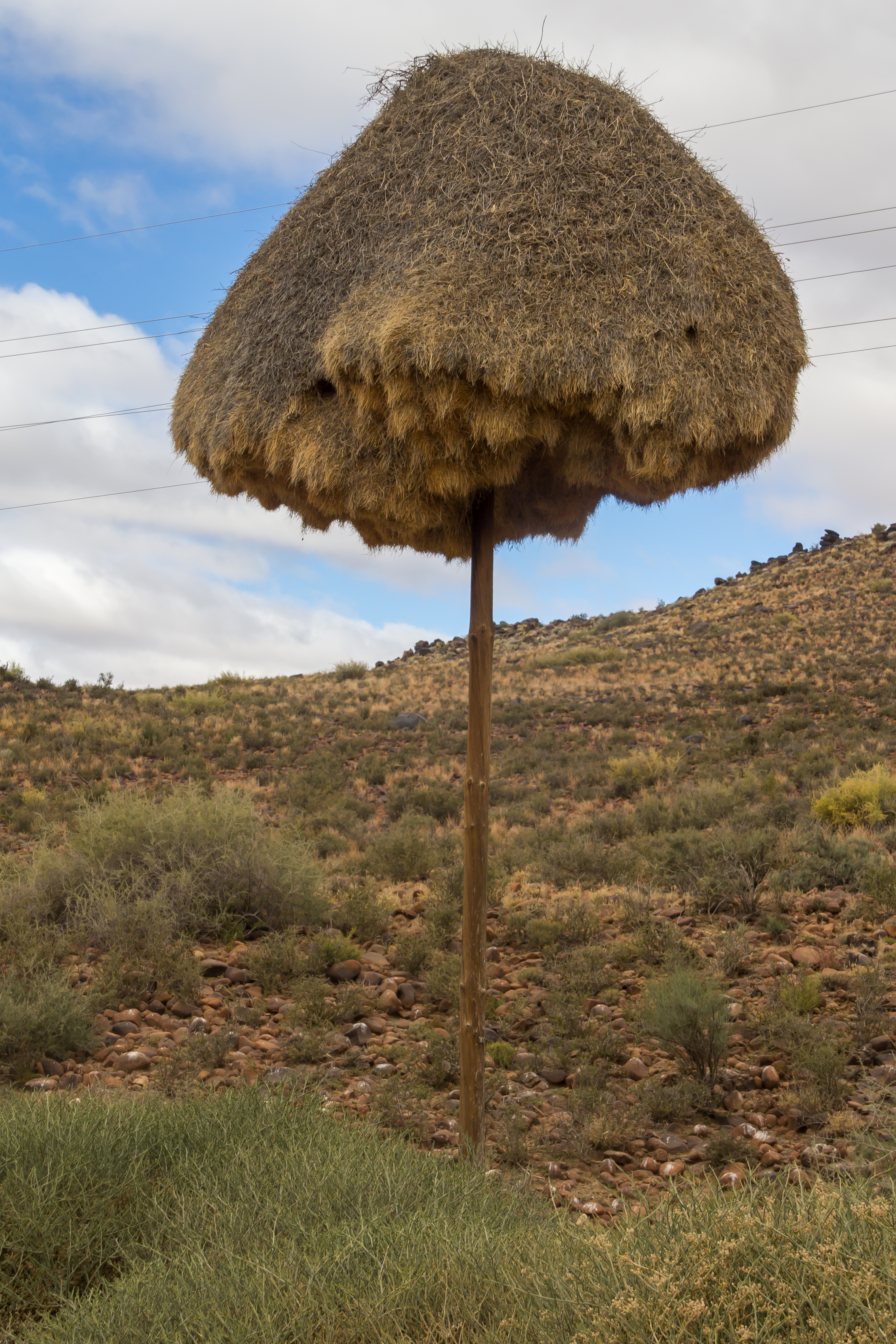 Social weaver nest on an electricity pole. North of Carnarvan, Northern Cape, South Africa.